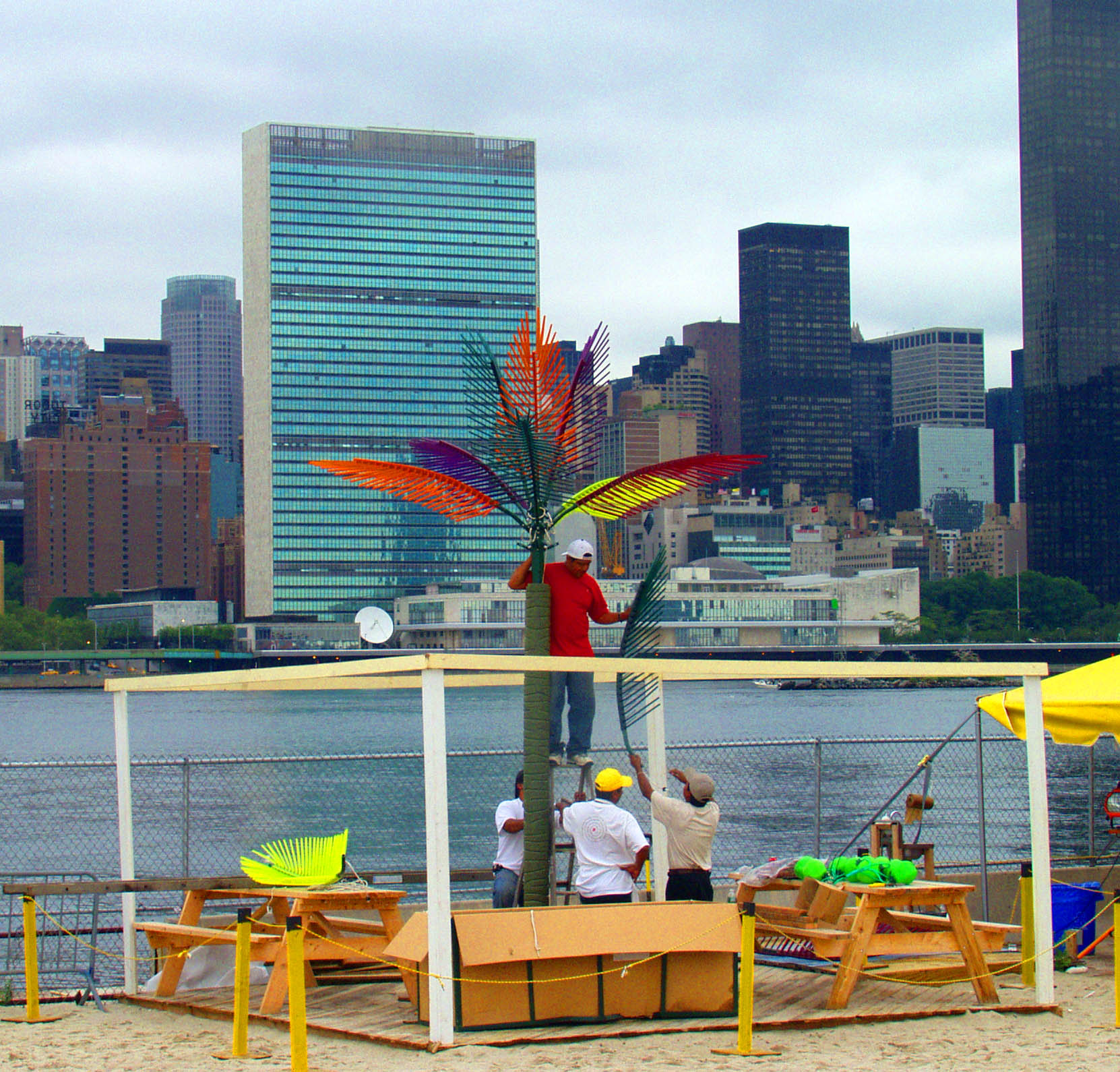 Artificial tree in front of UN Headquarters in NYC, which is across the river. Picture taken from the East River Wharf